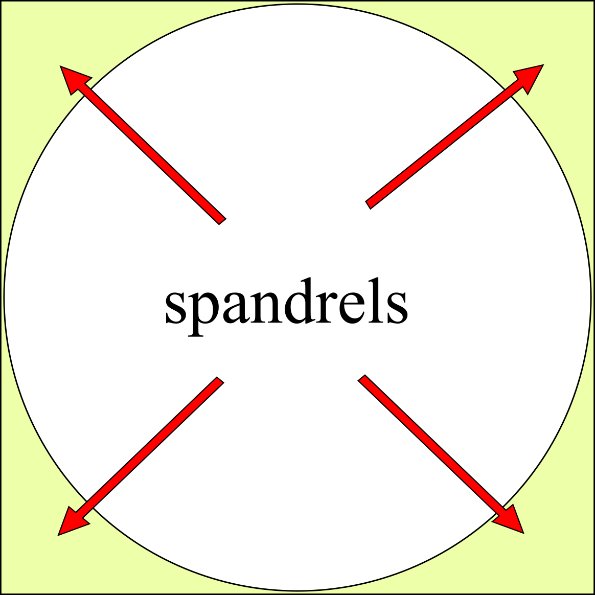 Illustration of spandrels between a circle within a square.